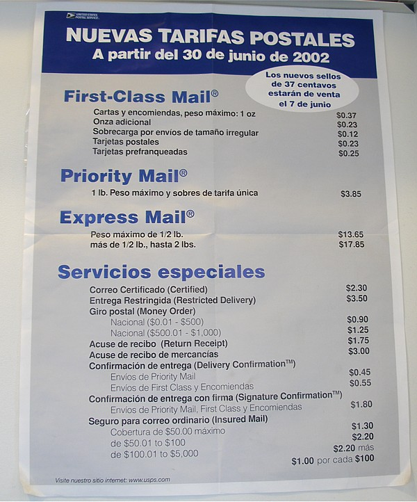 A poster at the United States Postal Service post office in Mountain View, California which indicates prices in the Spanish language.